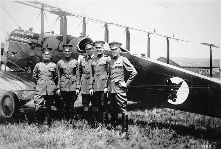 The five officers who flew the 9,000 miles from New York to Nome and back in 110 flying hours. Left to right: Capt. St. Clair Streett, Flight Commander; 1st Lieut. Clifford C. Nutt; 2d Lieut. Eric C. Nelson; 2d Lieut. C. H. Crumrine; 2d Lieut. Ross C. Kirkpatrick. The men are standing in front of a Black Wolf Squadron's DH-4 biplane. Alaska and Polar Regions Collections, Elmer E. Rasmuson Library, University of Alaska Fairbanks. Collection Name: Black Wolf Squadron Photographs Identifier: UAF-1990-164-1 Published in: Captain St. Clair Streett, U.S.A.S. Flight Commander, "The First Alaskan Air Expedition", The National Geographic Magazine, May, 1922, pp. 498-552.